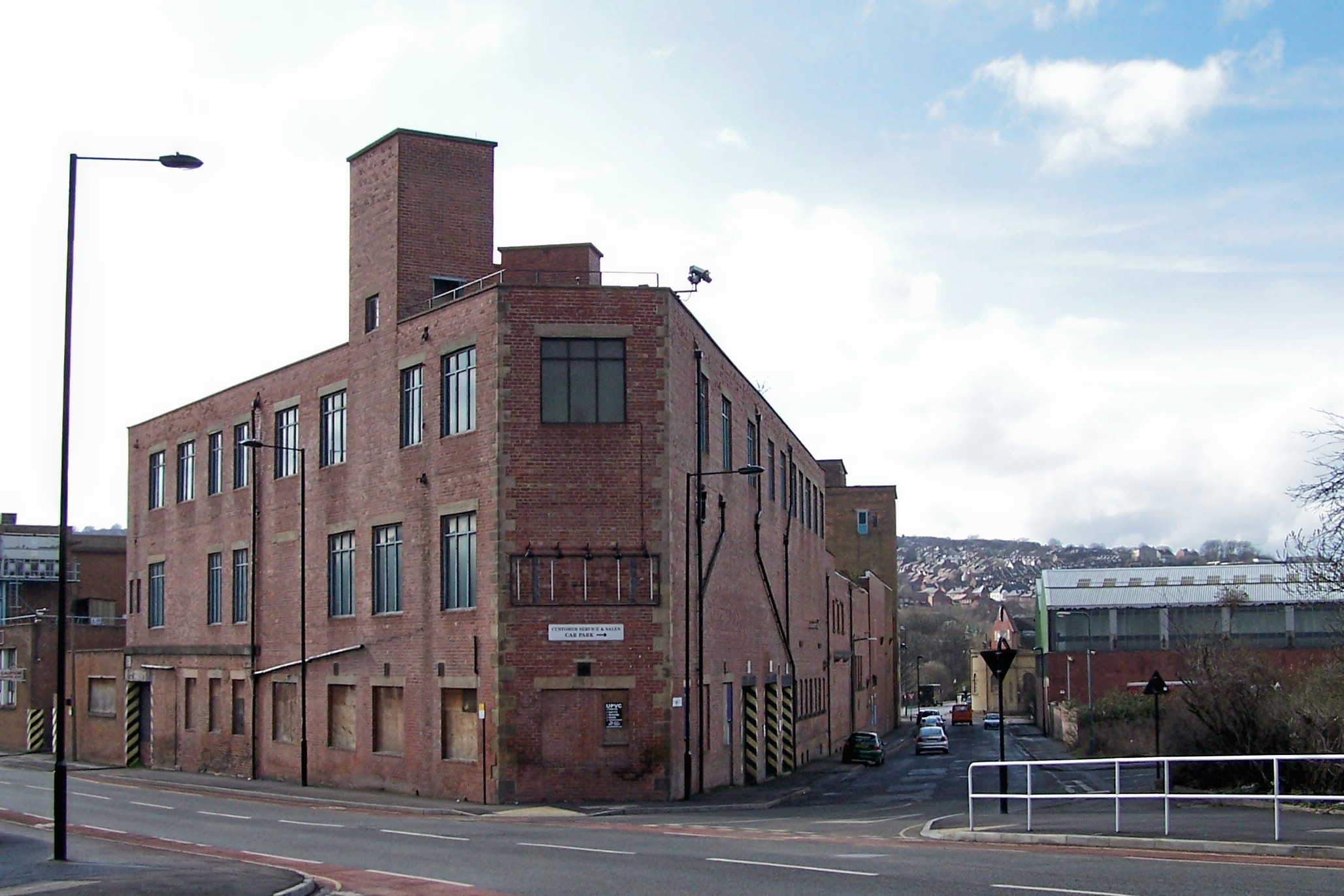 Cannon Brewery, Rutland Road, Neepsend, Sheffield - 3. This view of the brewery shows Rutland Road on the left and Boyland Street to the right. The Reception Building shown in Picture 2: 1778422 is off picture to the left, down Rutland Road. The brewery buildings have been put up - and probably parts knocked down - many times over the years, as can be seen looking down Boyland Street with at least five different structures.' For more views of the brewery and area see 1778394 1778422 1778464 1778479 1778484